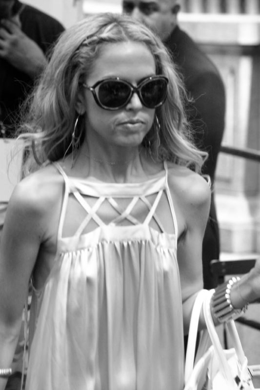 Stylist Rachel Zoe exits the Bryant Park tents during the Mercedes-Benz Fashion Week show on September 9, 2007.